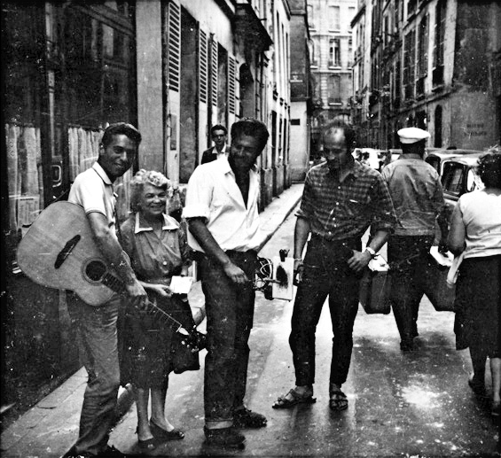 Peter Golding personal photograph of the Beat Hotel